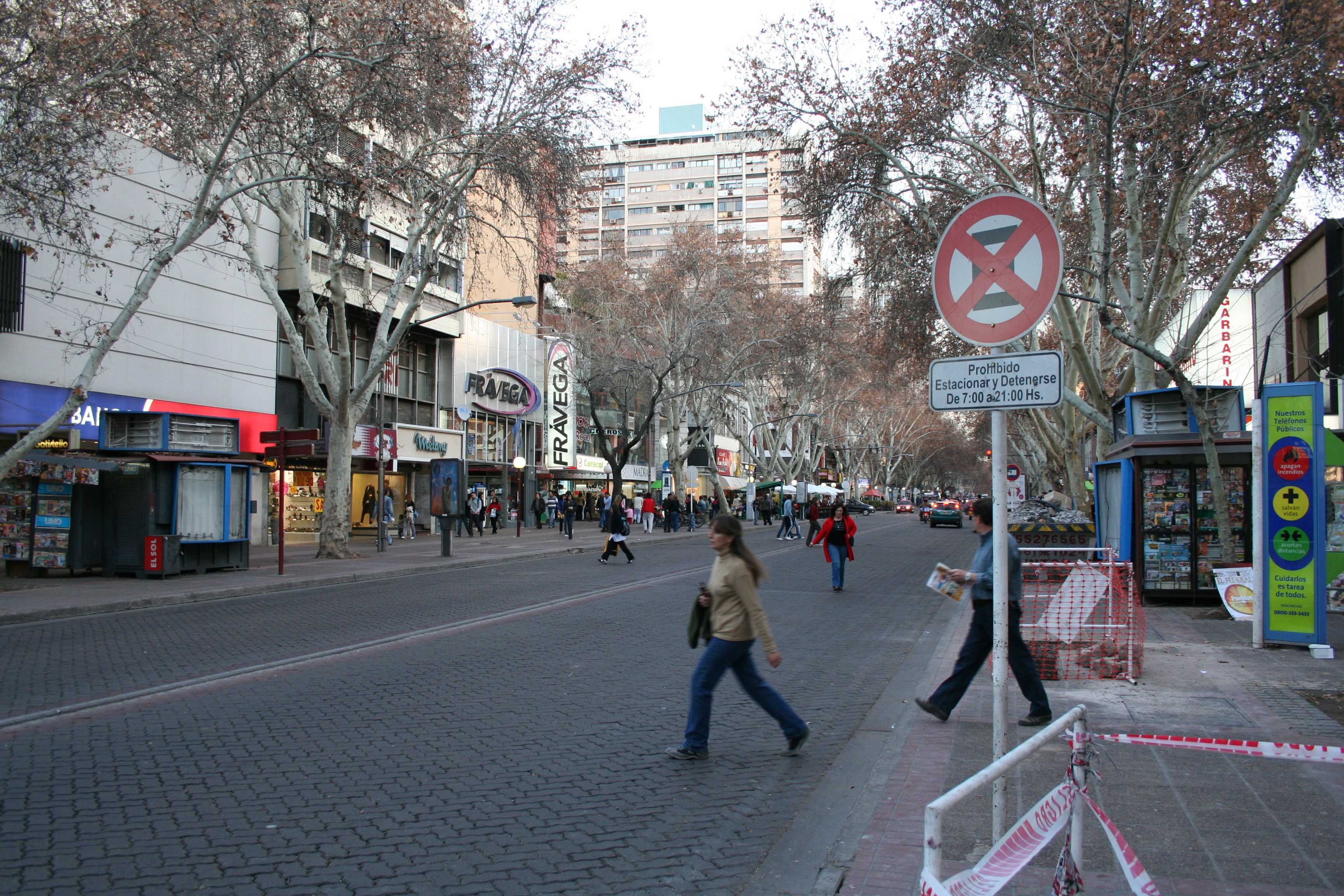 Downtown Mendoza, Argentina.